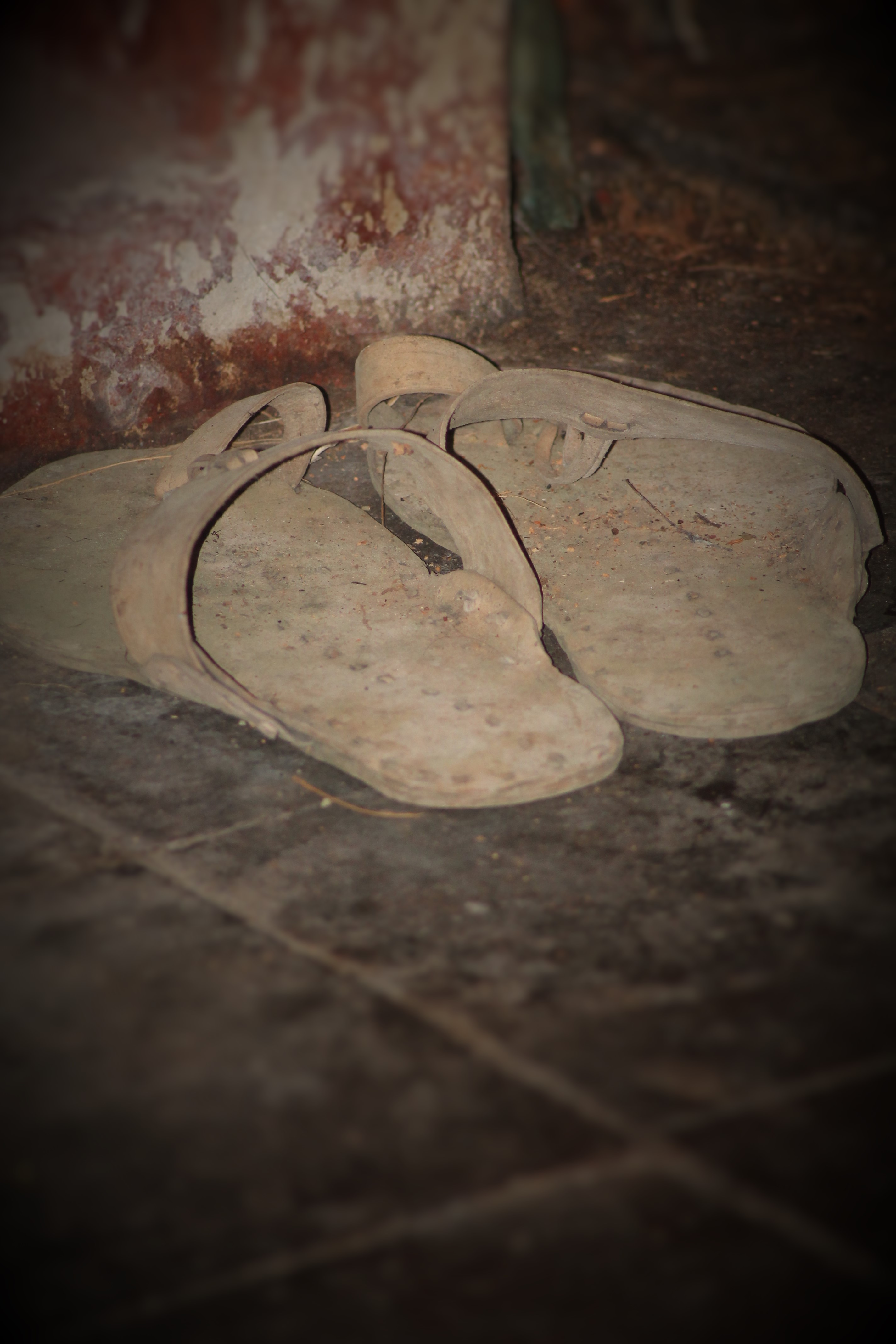 These chappals are offered to Betal when the wish fulfills. It is believed the Betal wears the chappals and roams around the village, soon these chappals gets worn out